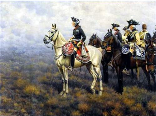 Frederick the Great Surveying the Field of Battle, 1922 Oil on canvas32-1/2 x 43-1/4 inches (82.6 x 109.9 cm)Signed and dated at lower left: UNGEWITTER. BERLIN.1922 Hugo Ungewitter, a well-known German painter of military, hunting, animal and sporting scenes, studied at the Dusseldorf Academy from 1888 to 1897. This work depicts Frederick the Great (1712-1786) in the company of his brother, Prince Henry, and Prussian Generals